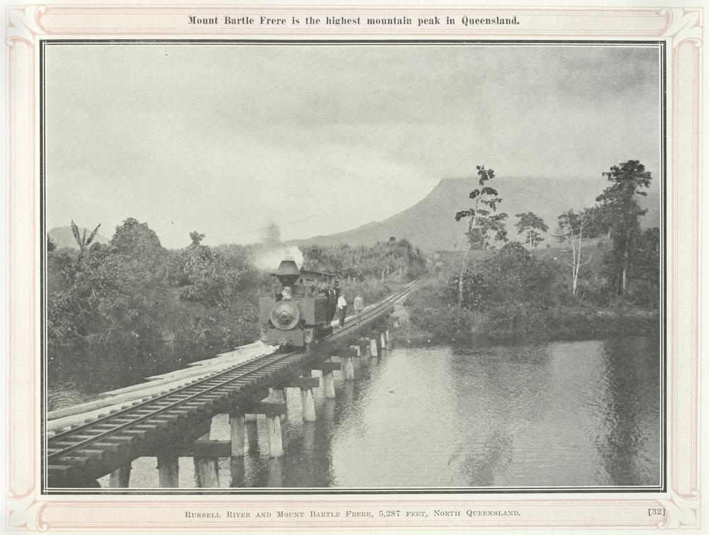 Small steam train crossing the Russell River with Mount Bartle Frere looming in the background, Cairns District, ca. 1924. Photograph is taken from a book produced as a Christmas gift from the Premier of Queensland and Mrs Theodore and features a presentation page allowing them to write the recipient's name in a space provided. Mount Bartle Frere is the highest mountain peak in Queensland.